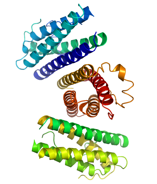 Crystal structure of G-CSF as published in the Protein Data Bank (PDB: 1RHG)